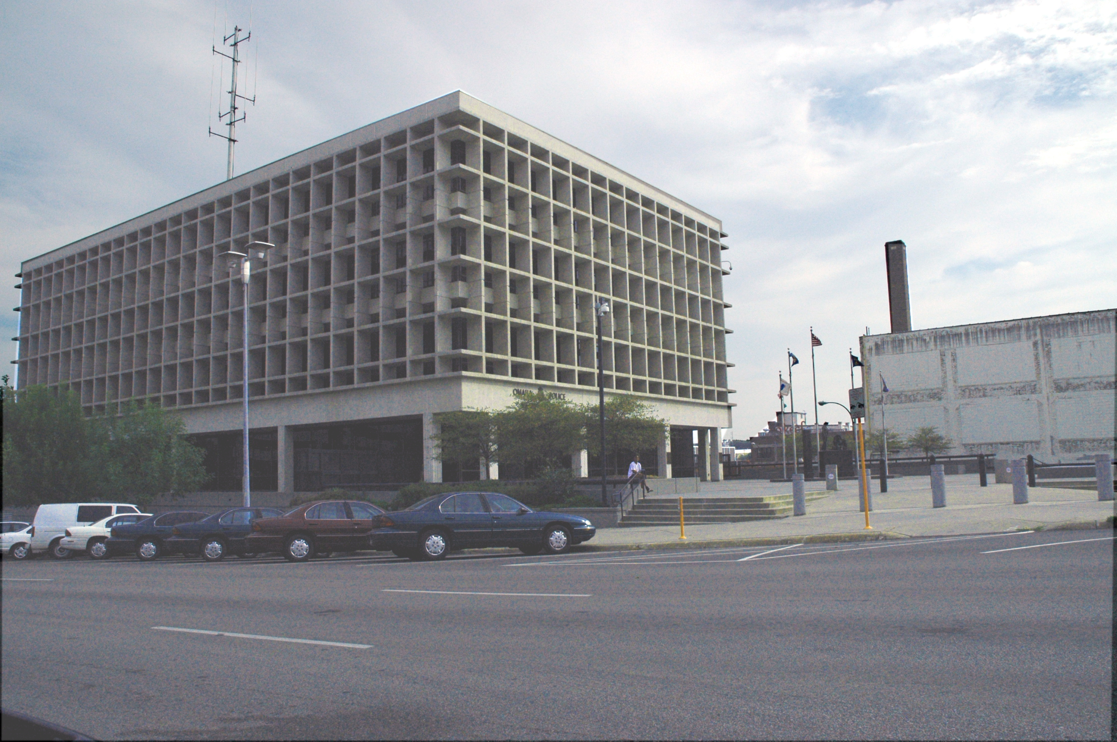 Omaha, Nebraska police headquarters building.